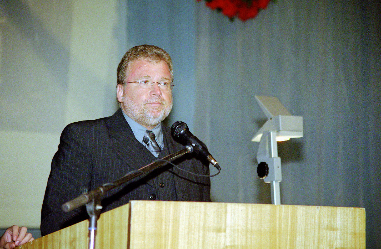 Rolf Geinert — mayor of Neckarbischofsheim (15.05.1990—01.05.2004), mayor of Sinsheim (2004—2012), coordinator of the local political knowledge transfer between German and Greek cities on behalf of the federal government (since 2012).